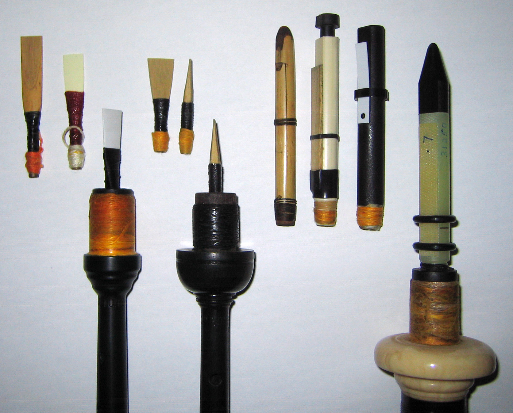 Reeds for Practice Chanter and Great Highland Bagpipe (GHB), from left to right; a cane practice chanter reed, a synthetic practice chanter reed, a synthetic practice chanter reed in a practice chanter, a cane GHB chanter reed, a cane GHB chanter reed in profile, a cane GBH chanter reed in a GHB chanter, a cane tenor drone reed (traditional), a plastic tenor drone reed with a cane tongue ("Champion Reeds"), an early all synthetic plastic bass drone reed ("Shepherd Reeds"), a modern synthetic bass drone reed of composite materials in a GHB bass drone ("Rocket Reeds").